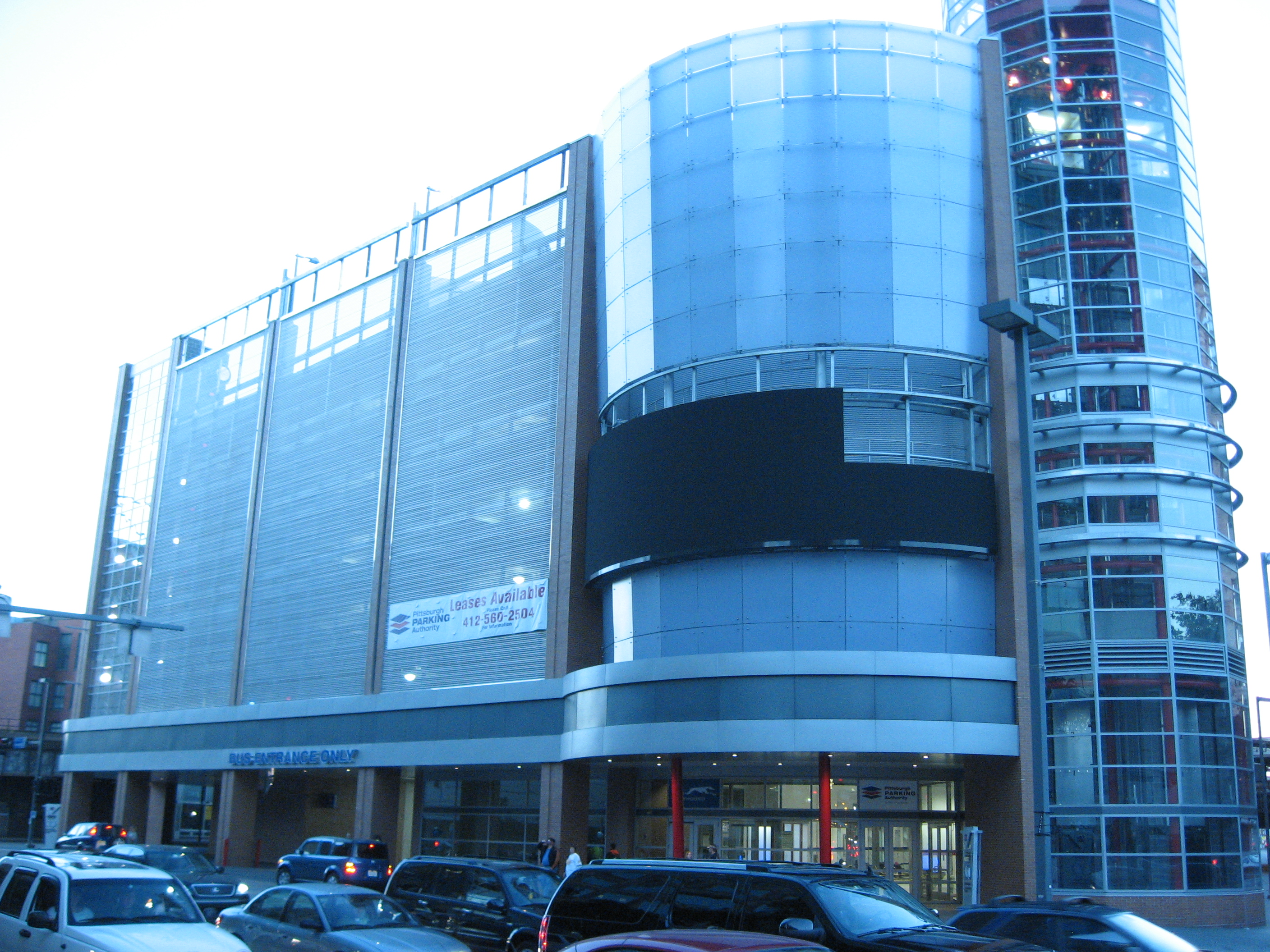 Streetside view of the Greyhound bus station in downtown Pittsburgh, Pennsylvania, United States. Address 55 11th St., Downtown.